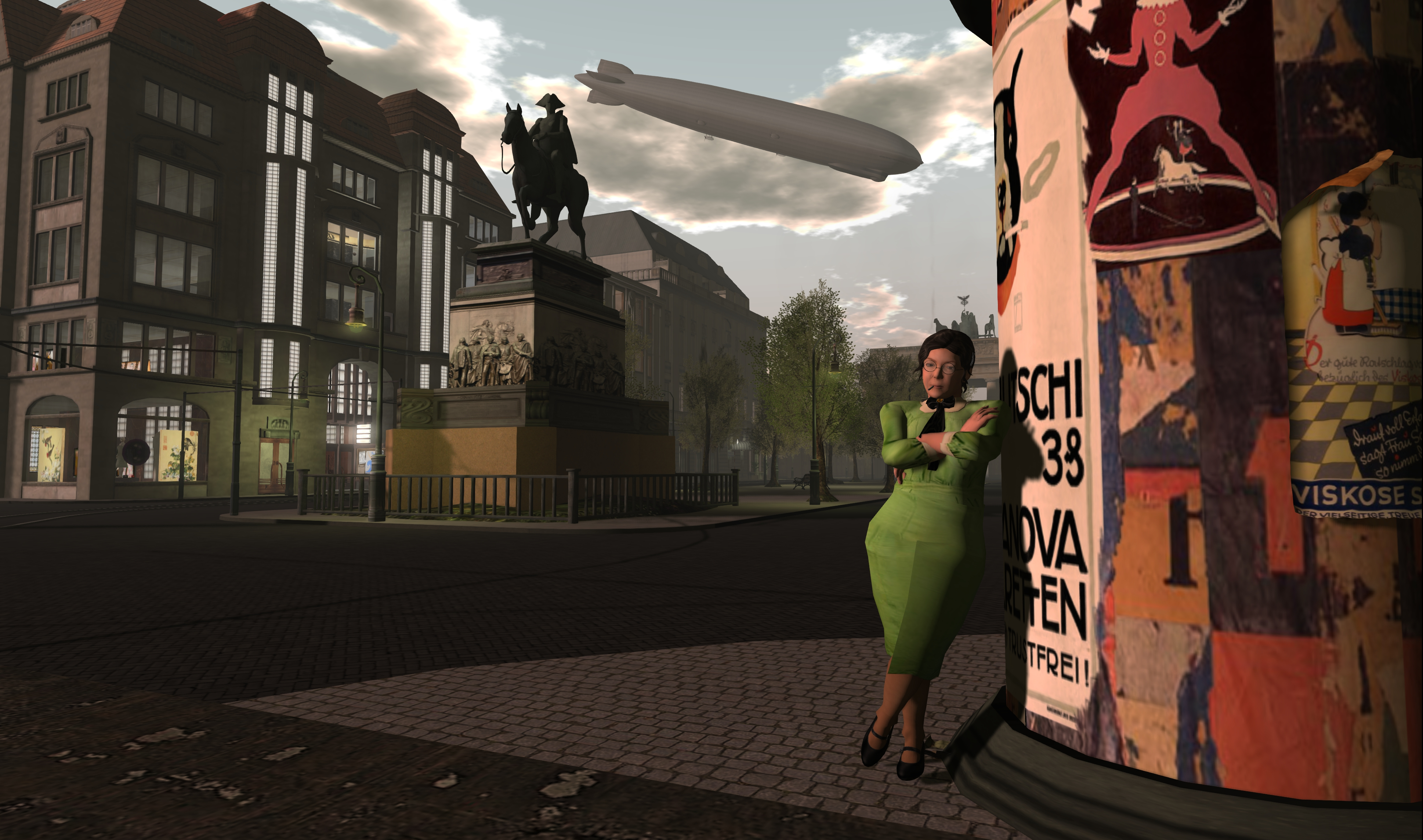 Jo Yardley stands on a Virtual Reality recreation of Unter den Linden in Berlin as it might have looked in 1929 with in the background the Kaufhaus des Westens, Hotel Adlon, the Graf Zeppelin and the Brandenburg Gate. It is part of The 1920s Berlin Project, an educational roleplaying community in the online virtual world of Second Life. This sim (short for simulation) allows people from all over the world to explore Pre-Nazi era Berlin. The project was build and is managed by Jo Yardley.